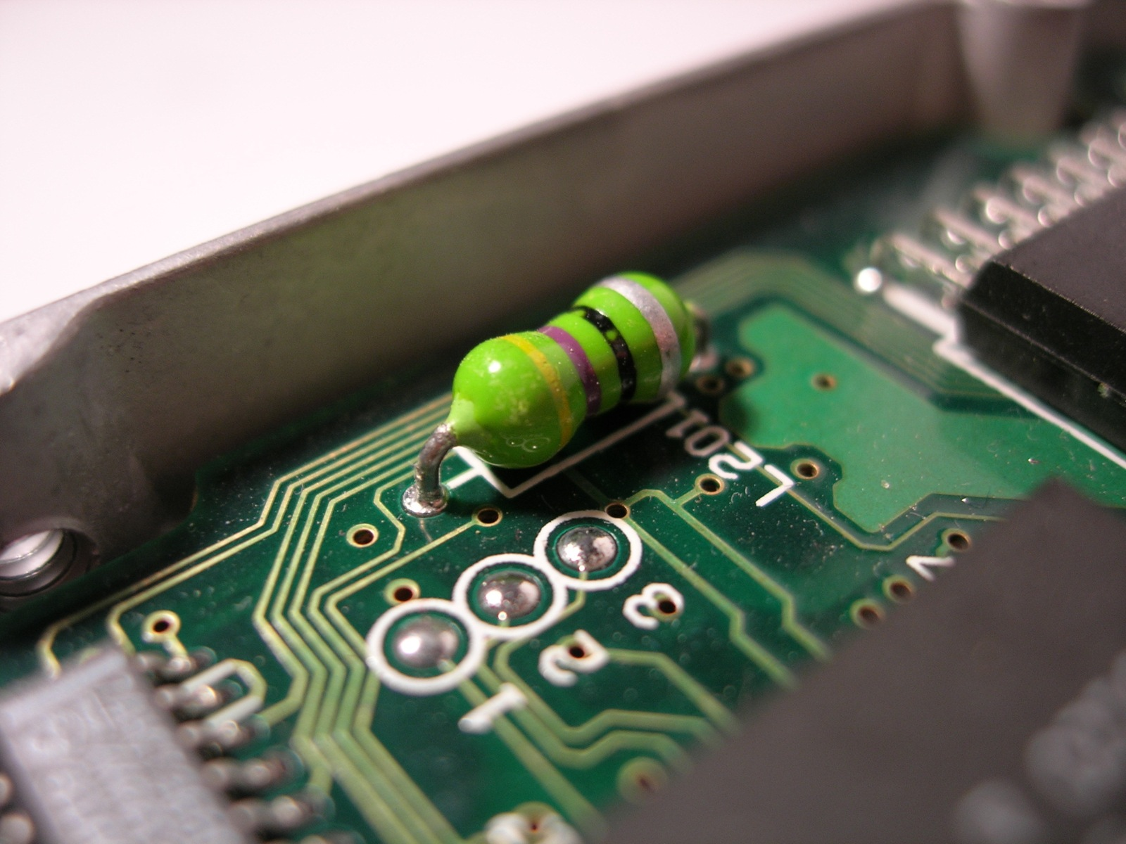 Fabricated inductor soldered on a printed circuit board. Its color code gives value as 47 µH, ±10%.